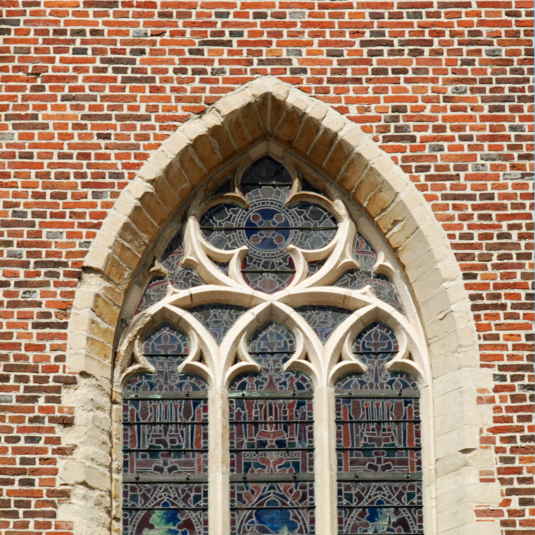 Belgium - Leuven - Chapel of the Romanesque Portal